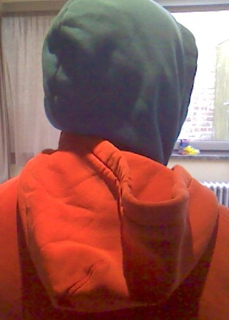 A boy with a hoodie